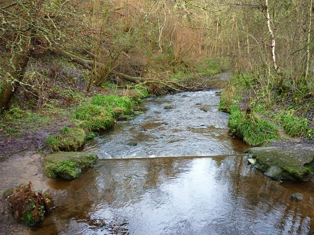 Glencryan Burn in Vault Glen View from the bridge over the burn looking downstream. A little further down the burn meets the Red Burn.